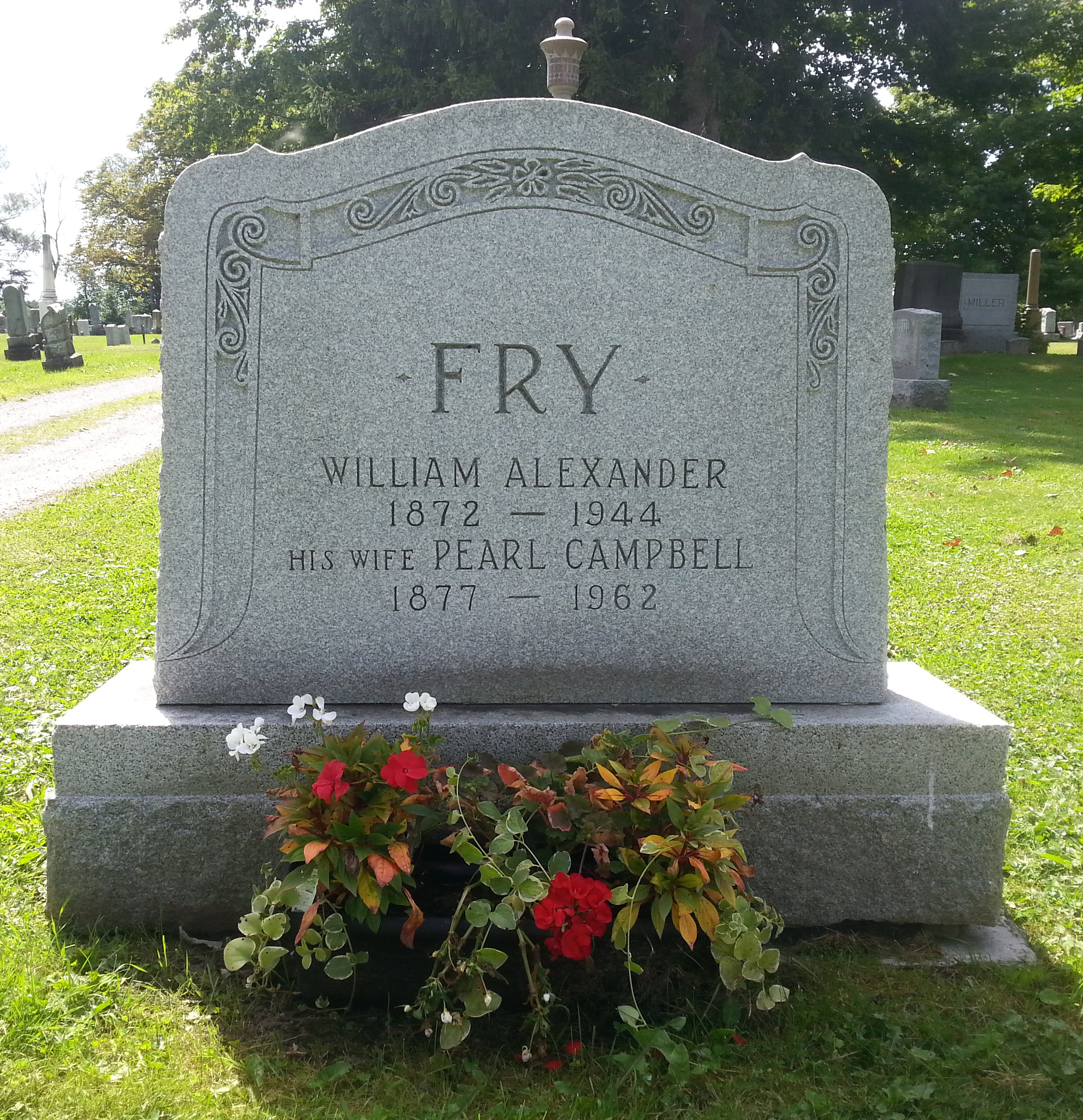 William A. Fry's gravestone in Riverside Cemetery in Dunnville, Ontario